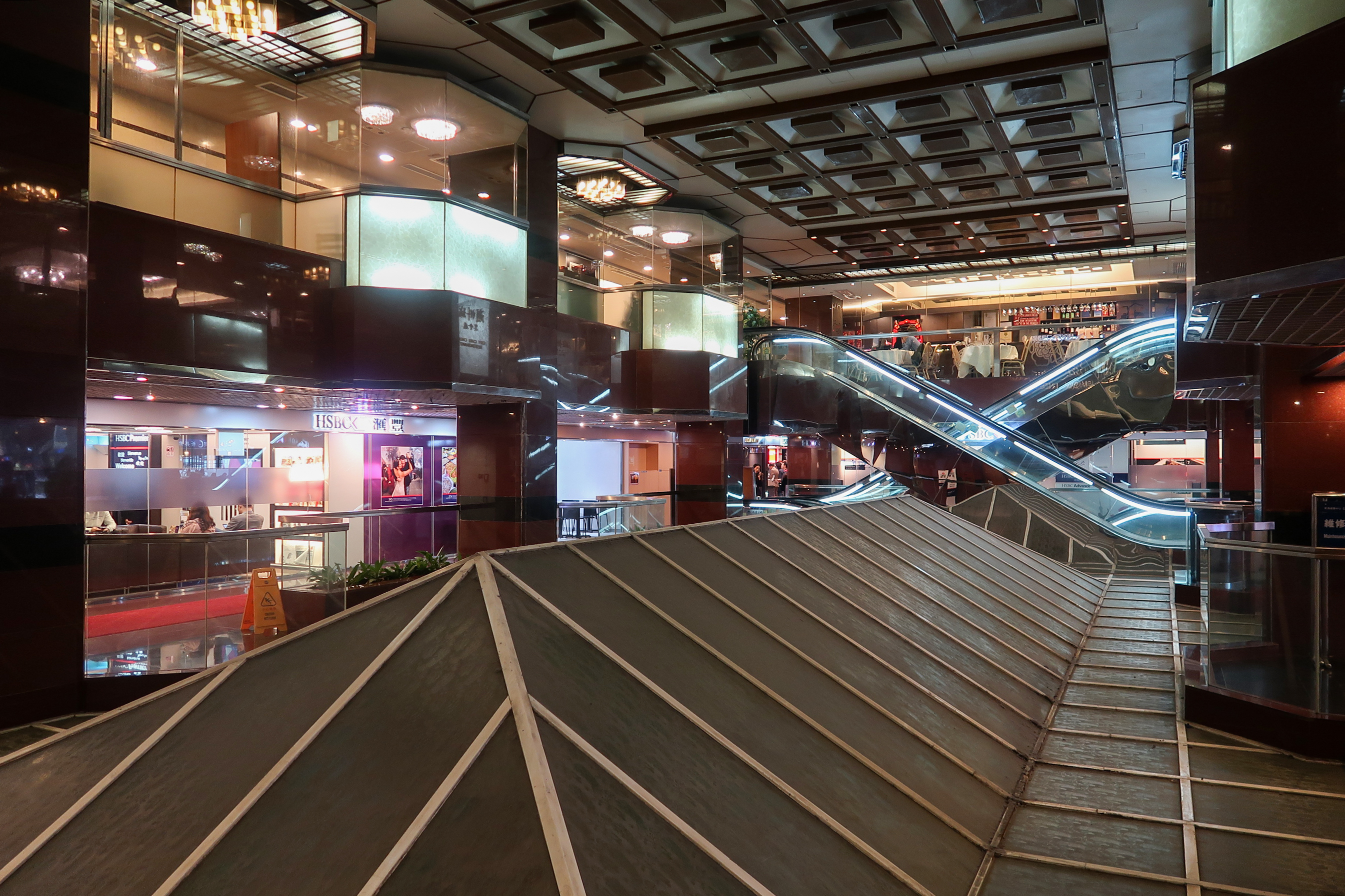 East Ocean Centre